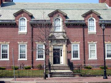 Lydia Pinkham Memorial clinic, Salem, MA Photograph copyright ©2004 Daniel P. B. Smith and released under the terms of the Wikipedia license.